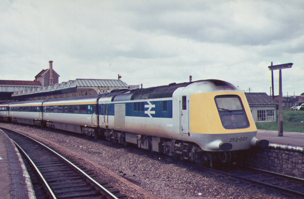 Prototype HST 252001 at Weston-super-Mare railway station in 1975.